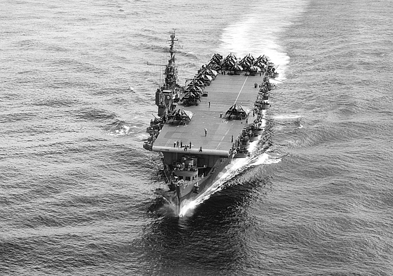 The light aircraft carrier USS Cowpens (CVL-25) in 1945. Aircraft of Carrier Air Group 22 are parked on the deck.